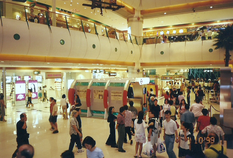 MTR 20th anniversary Exhibit in Maritime Square